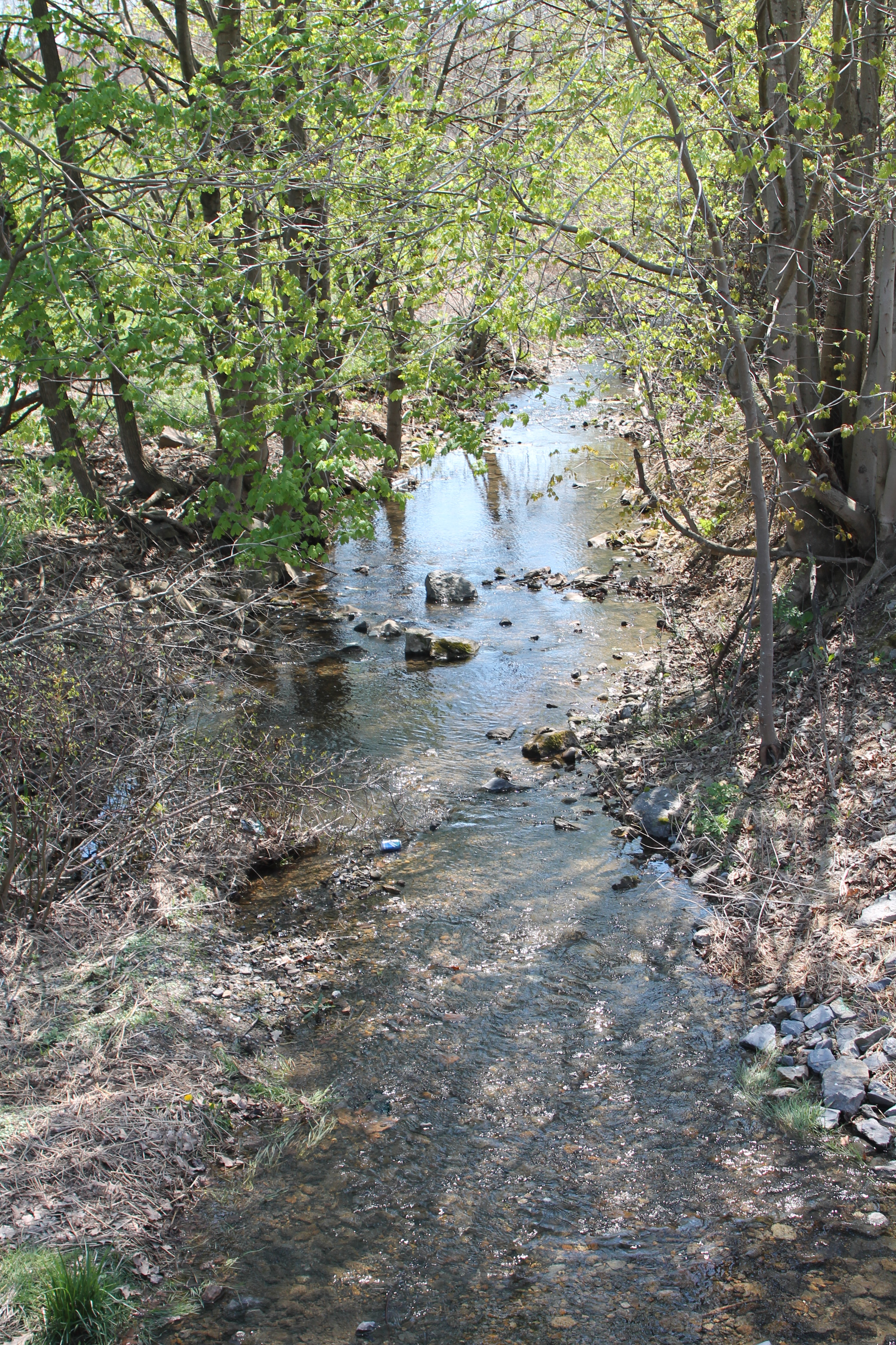 Turkey Run, a tributary of the West Branch Susquehanna River in Lycoming County, Pennsylvania looking downstream in its lower reaches.